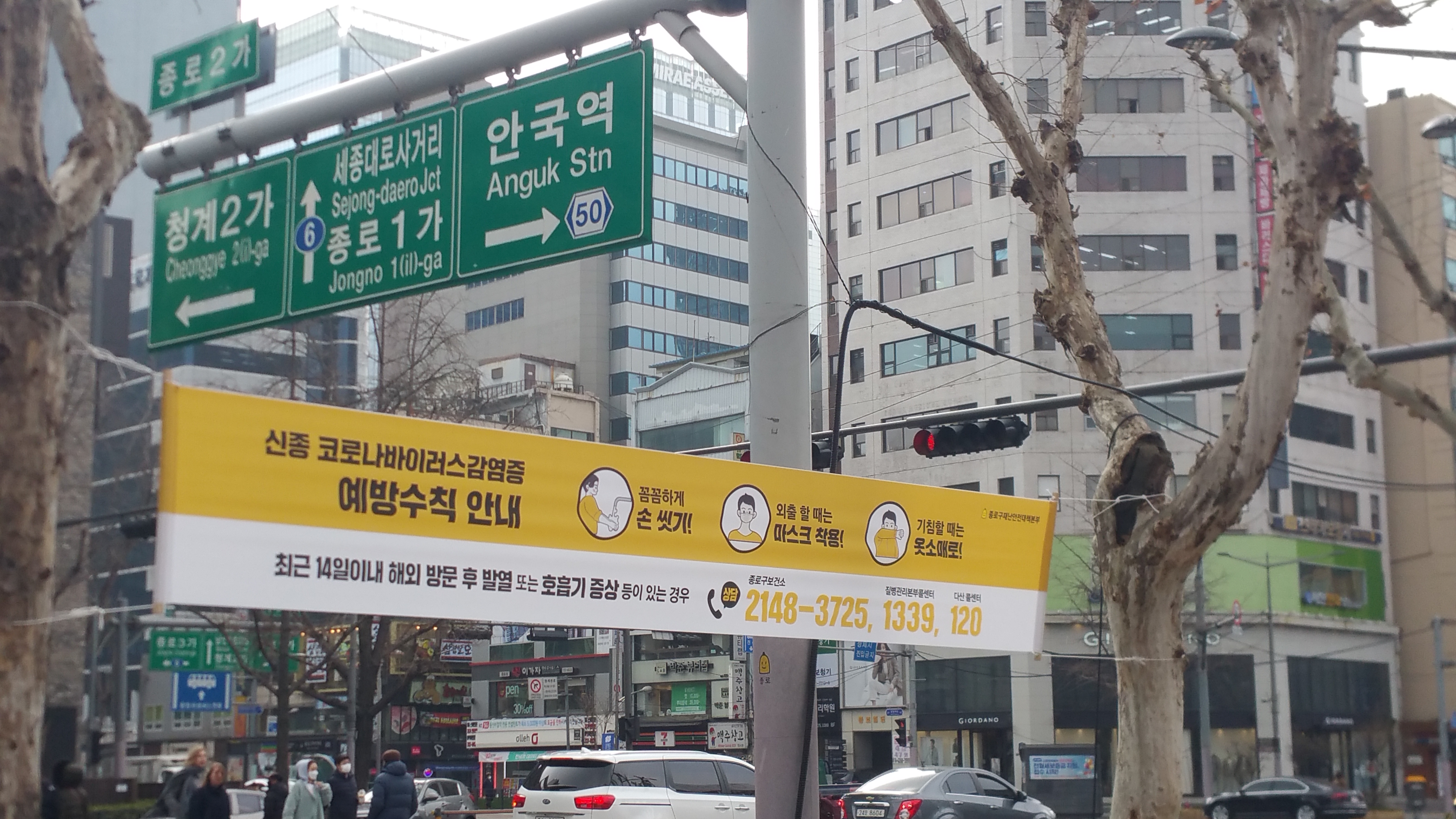 Coronavirus infection prevention tips banner, Jongno, Seoul, South Korea, February 22, 2020.